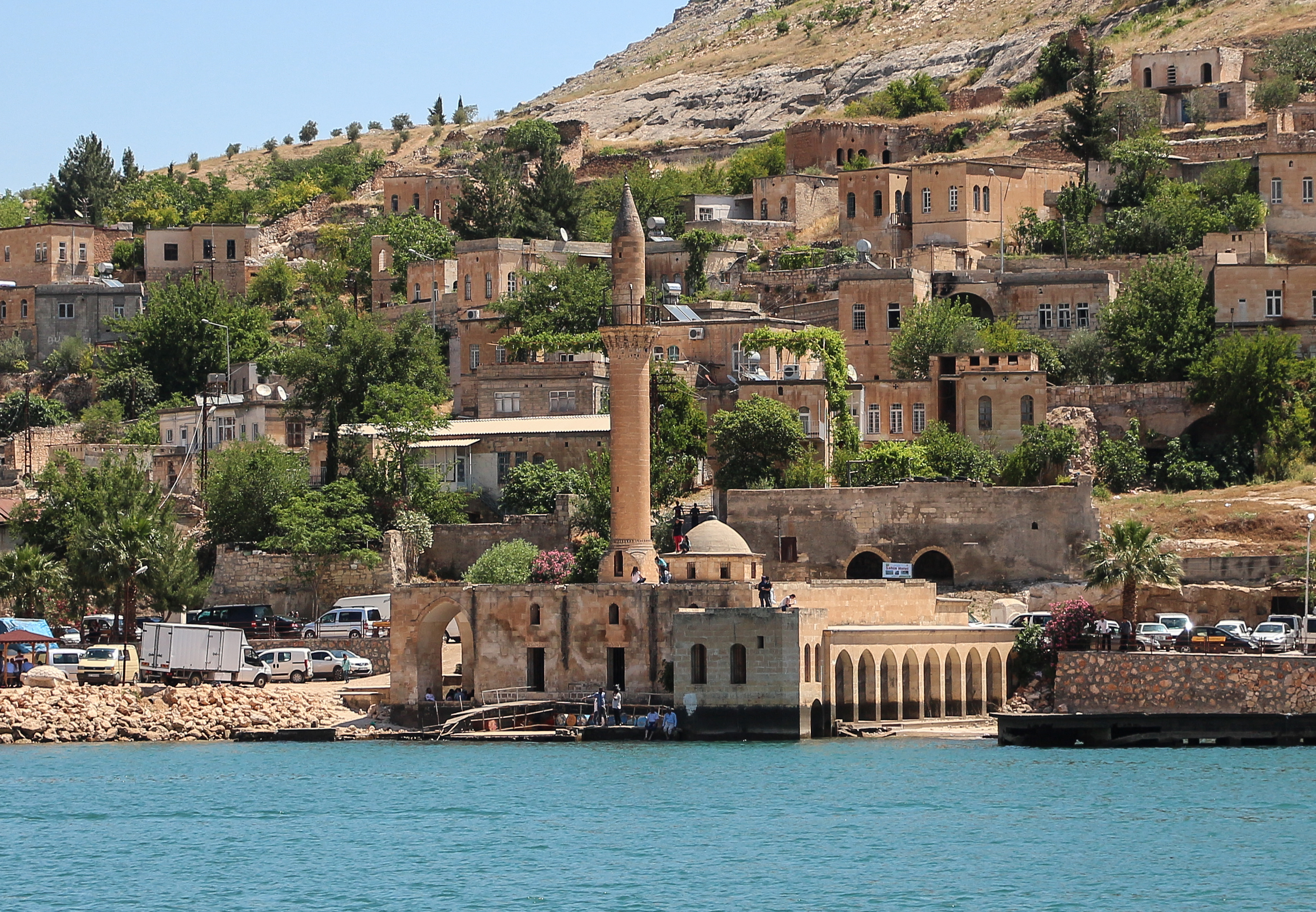 Mosque of Halfeti on the river Euphrates, Turkey